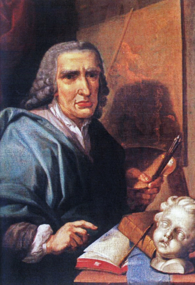 André Gonçalves (1685-1754), Portuguese artist.